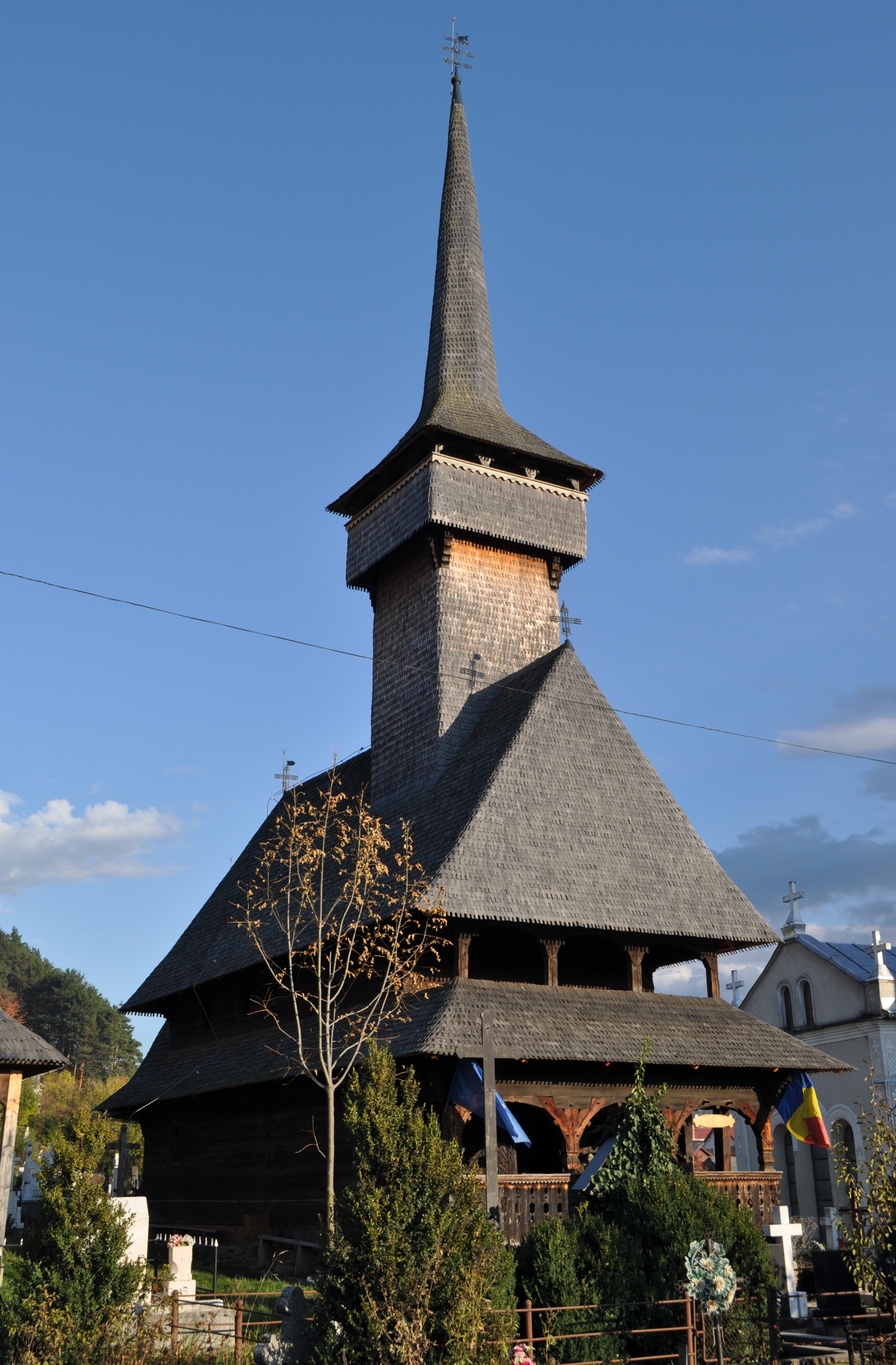 Wooden church in Borșa, Maramureș county, Romania